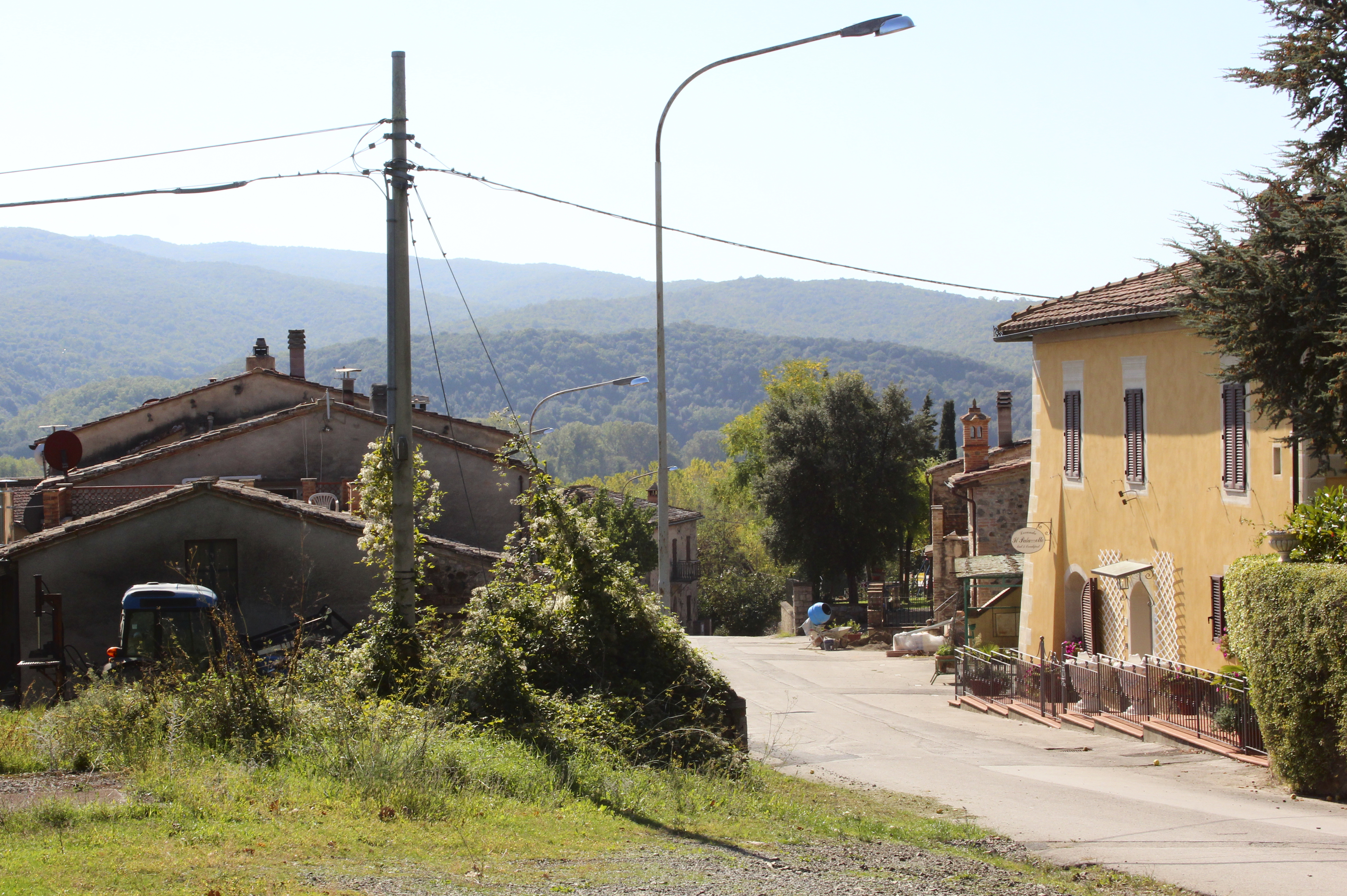 La Befa, Village/hamlet of Murlo, Province of Siena, Tuscany, Italy